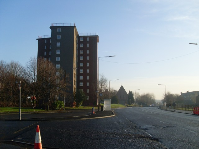 Flats on Prospecthill Crescent At the corner of Prospecthill Road.